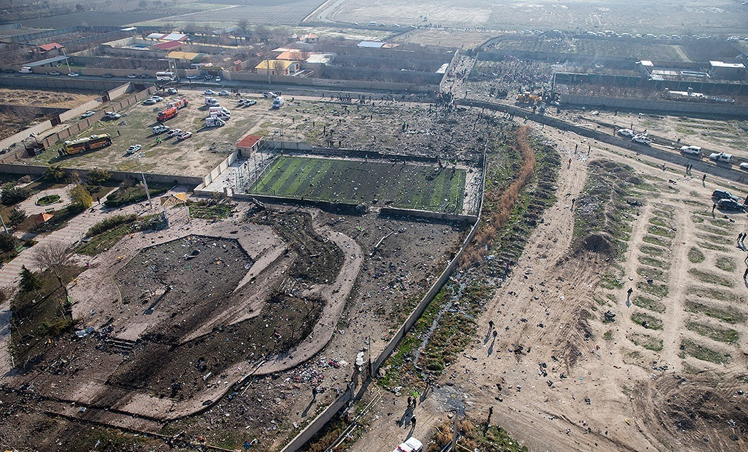 Aerial imagery of flight PS752 wreckage in Khalajabad, Shahriar County, Tehran Province, Iran.Debris from the crashed 737-800 is visibly strewn across a sports pitch, waterway, and other structures.Image from Fars